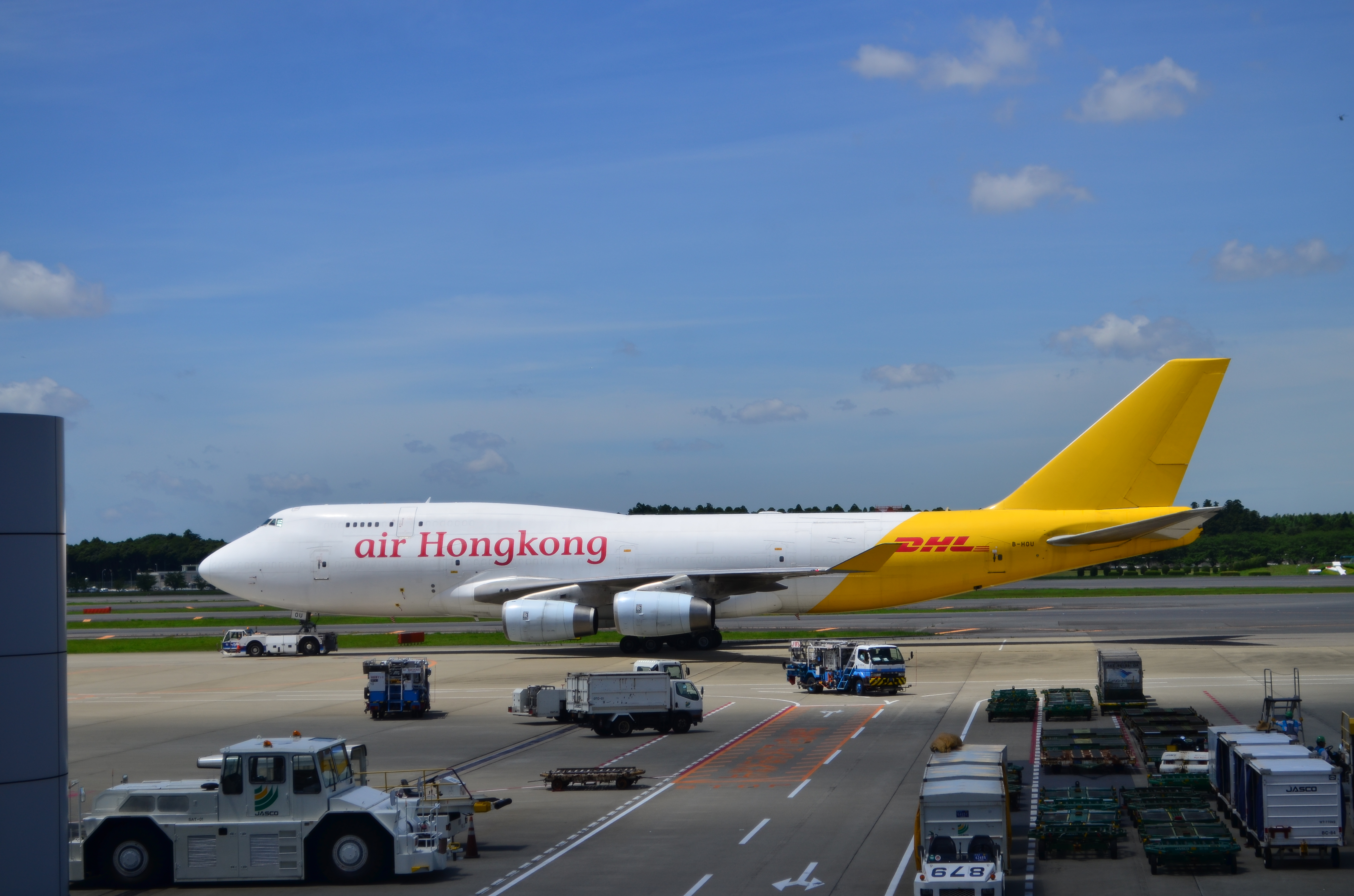 Narita International Airport